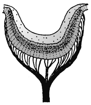 Eye pit of Patella sp.